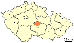 Location of Havlíčkův Brod District in the Czech Republic. Drawn by me.